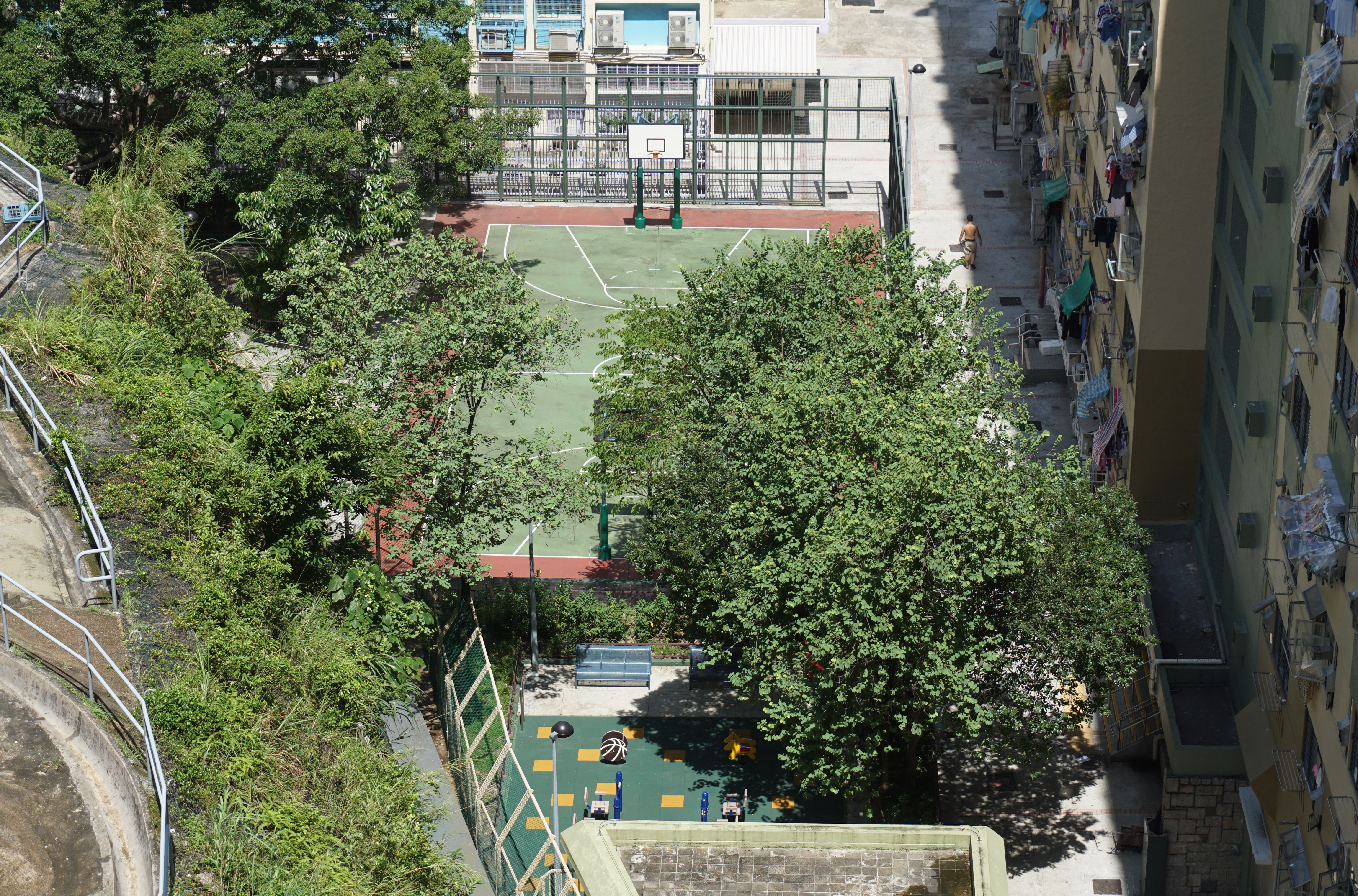 Kwai Shing West Estate in Kwai Shing, Hong Kong.